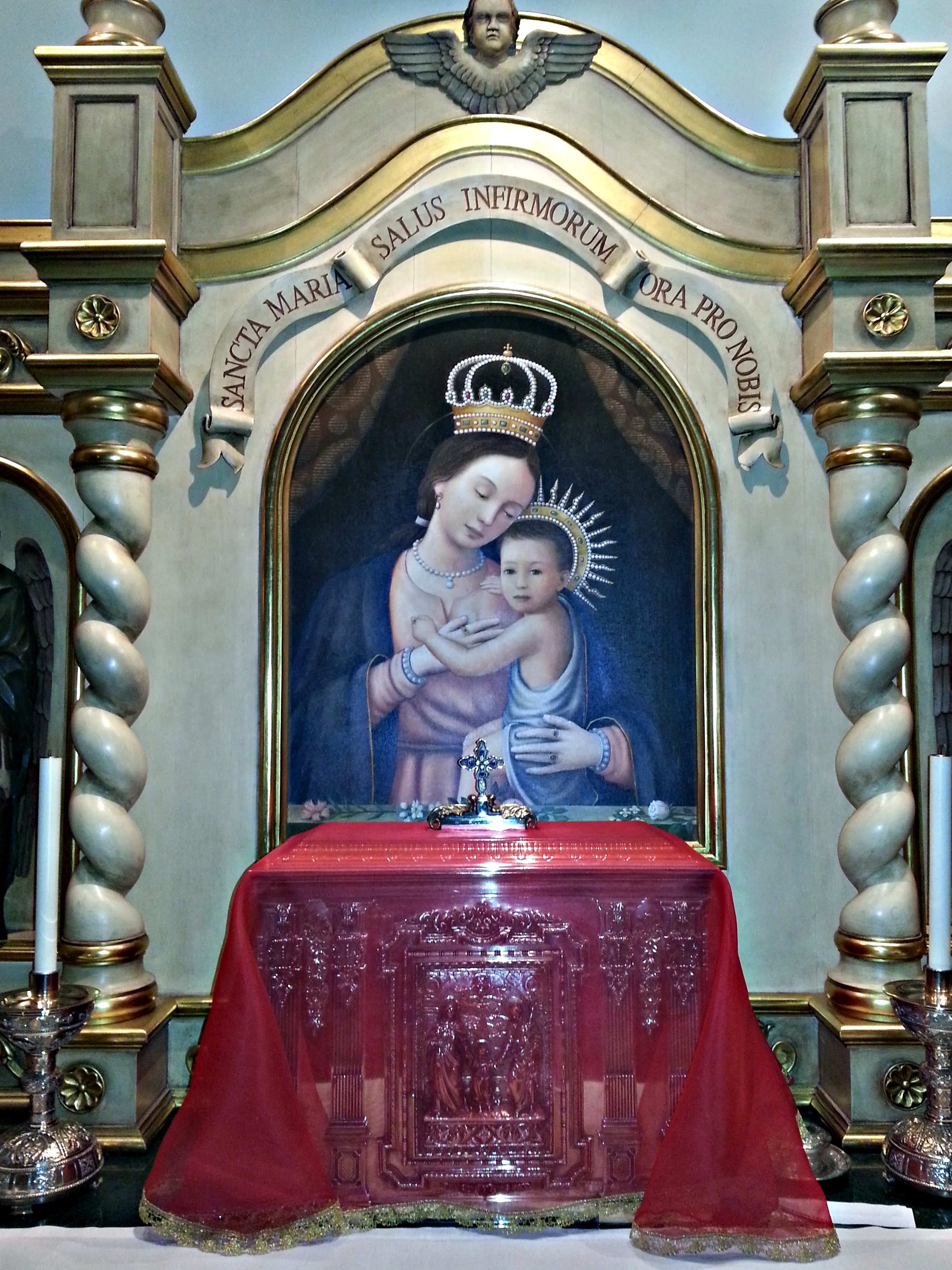 "Blessed Virgin Mary, health of the sick", a devotional title contained in the Loreto Litanies. Oratory of the Hospital Universitario Austral, Pilar Partido, Argentina.